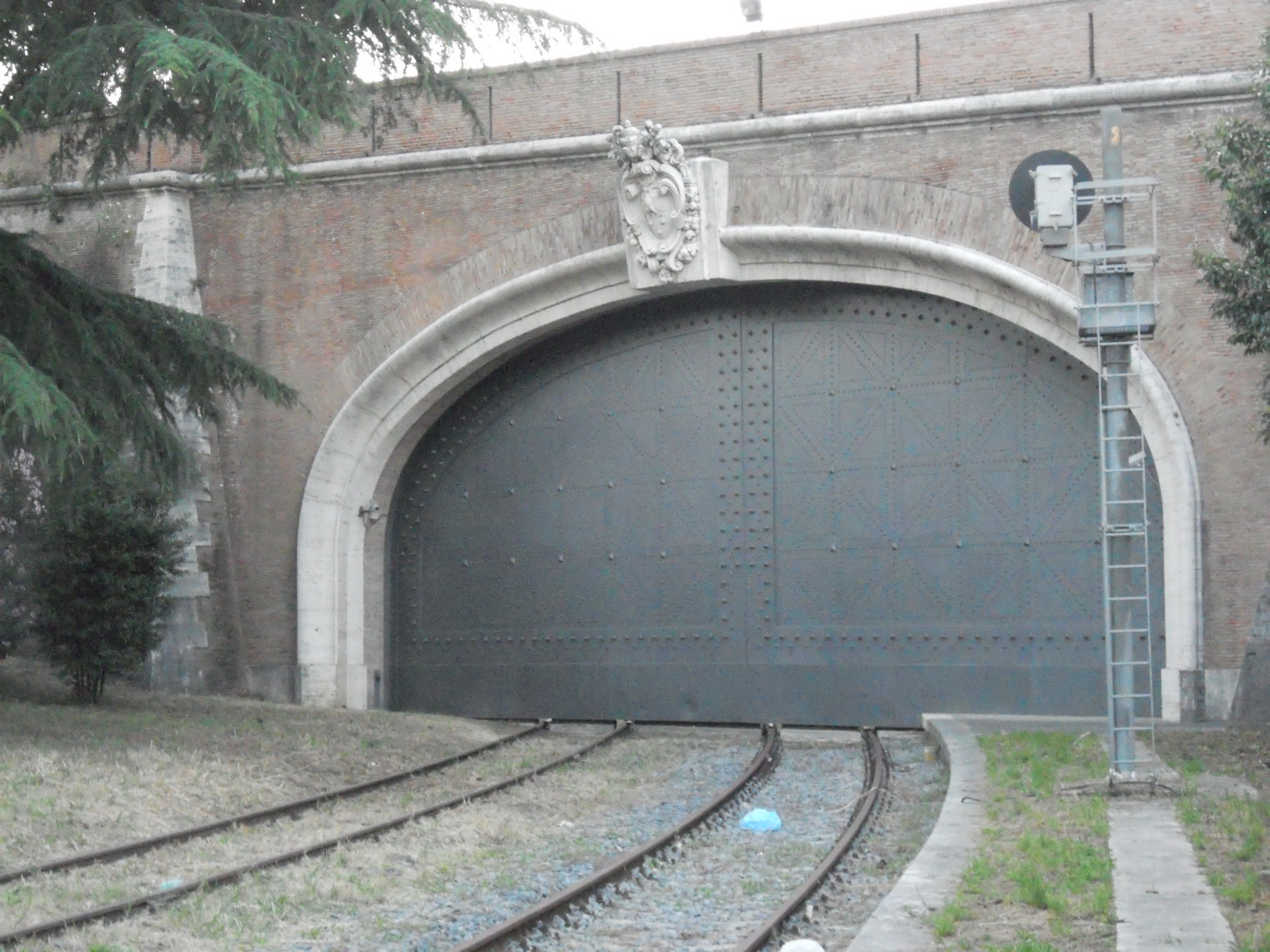 Vatican Railway - Closed gate through the Vatican Wall